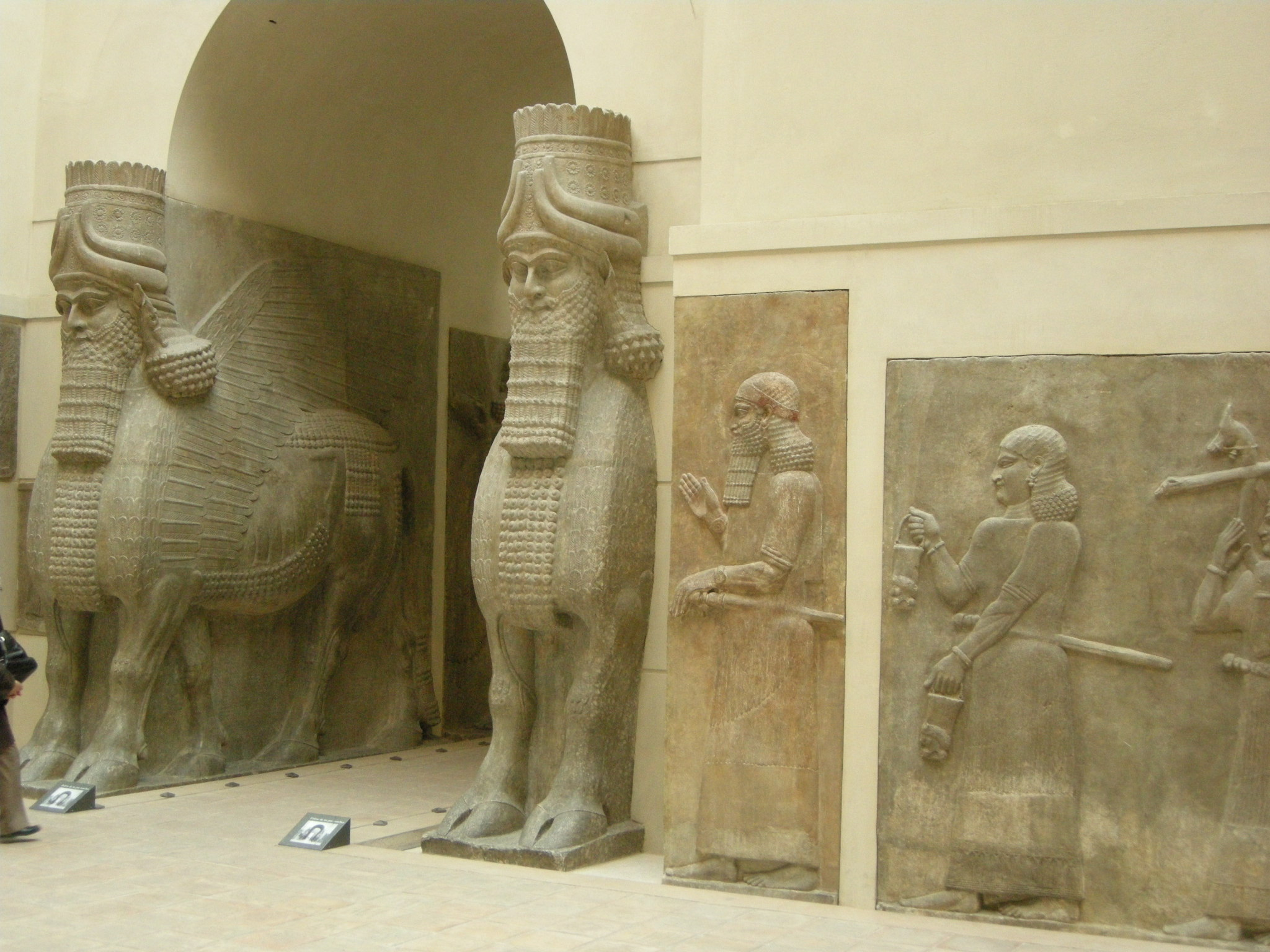 Eastern Antiquities in the Louvre - Room 4, 03.JPG Winged bull with human head-AO 19857 Winged bull with human head-AO 19858 Dignitary-AO 19875 Servants carrying a wheeled throne-AO 19882